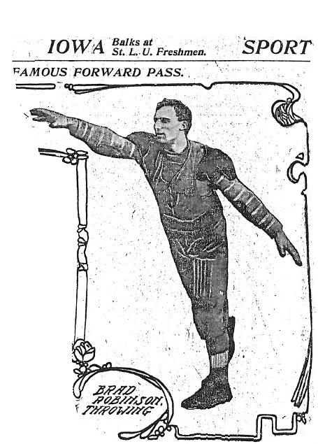 Photograph of American football player Brad Robinson, who threw the first legal "forward pass".